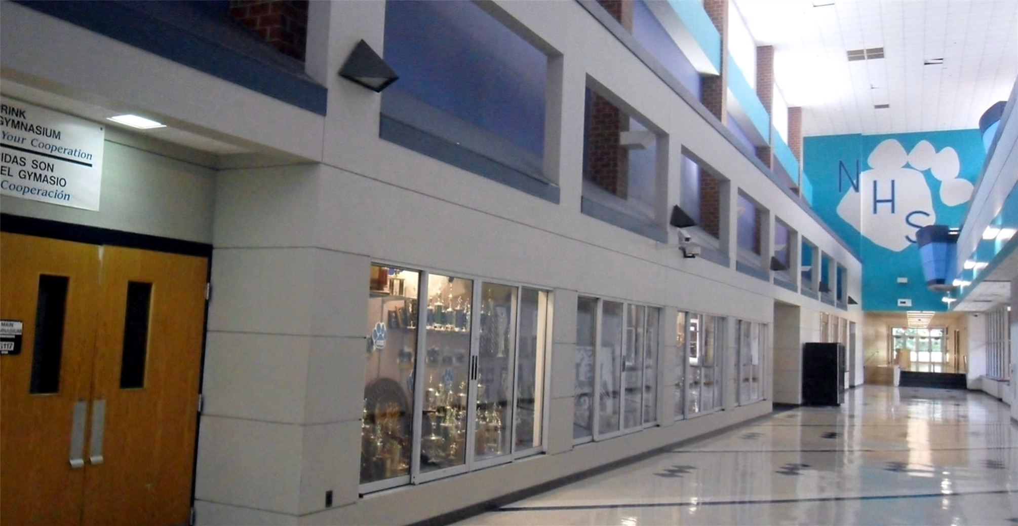 Entrance/Exit to the gymnasium (left) and Entrance/Exit to the B/G-Wing (right) at Northwestern High School. The display cases to the right house the schools many awards earned over the years by the athletic department.